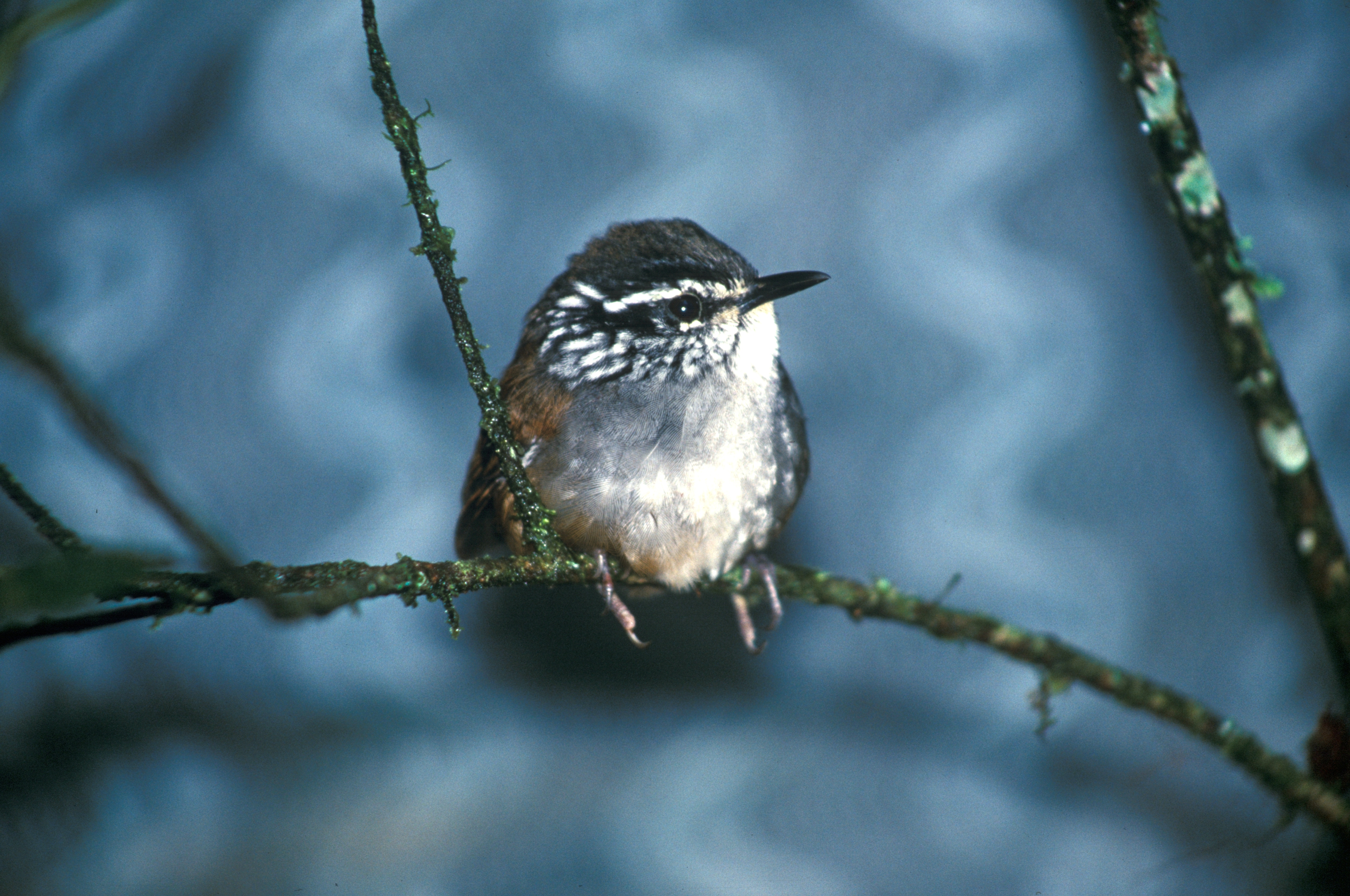 Grey-breasted Wood-Wren (Henicorhina leucophrys) from Ecuador